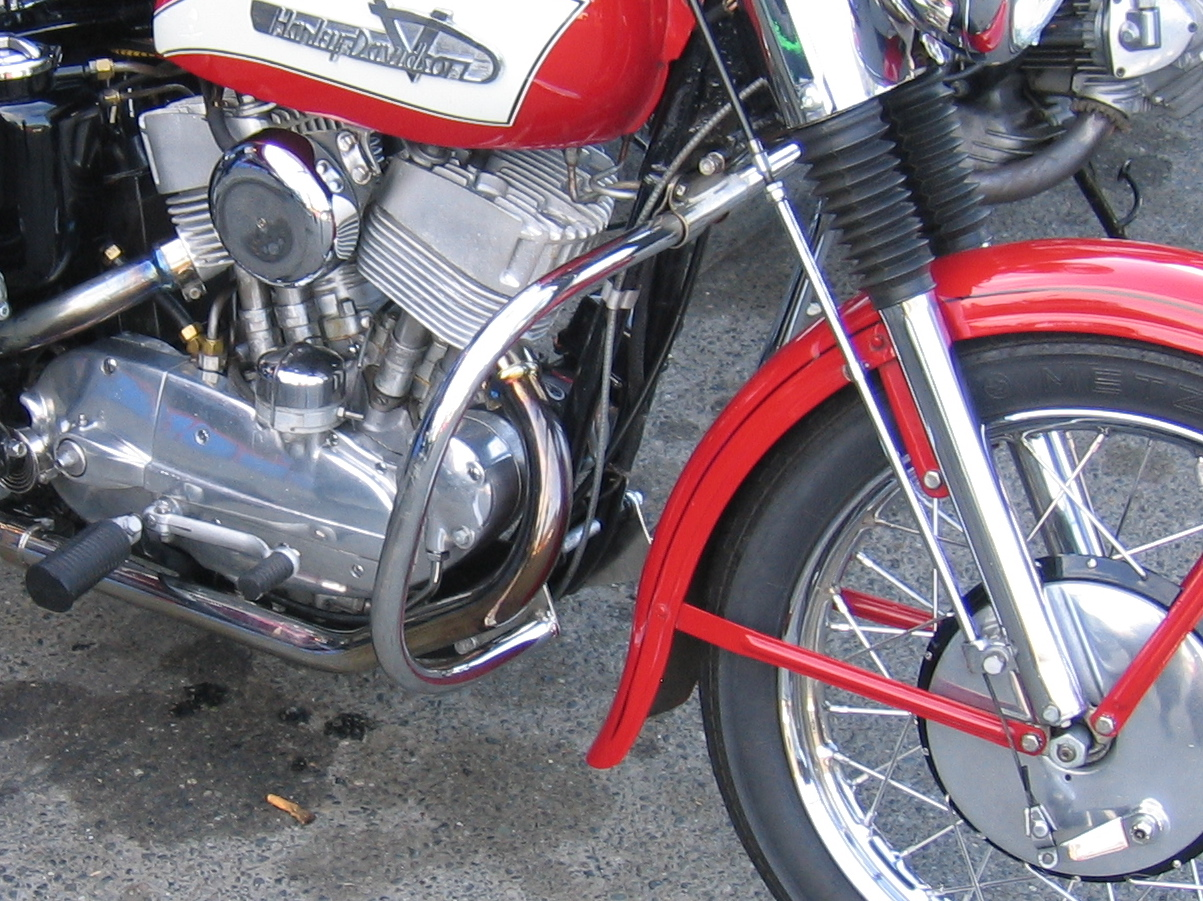 Detail of classic Harley-Davidson with crash bar. Isle of Vashon TT poker run, Vashon Island, Washington.